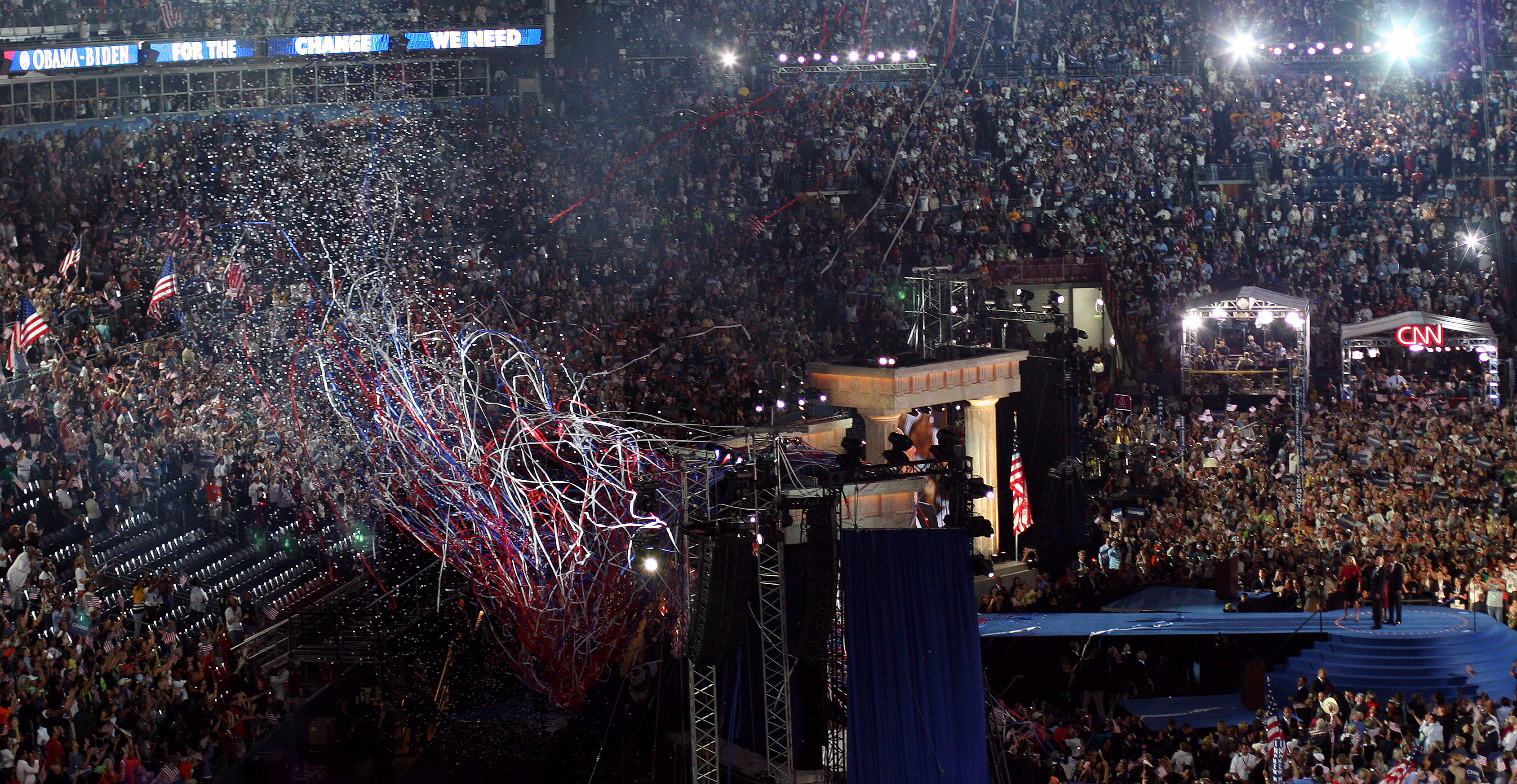 Confetti and streamers after Barack Obama's speech at the Democratic National Convention, 2008